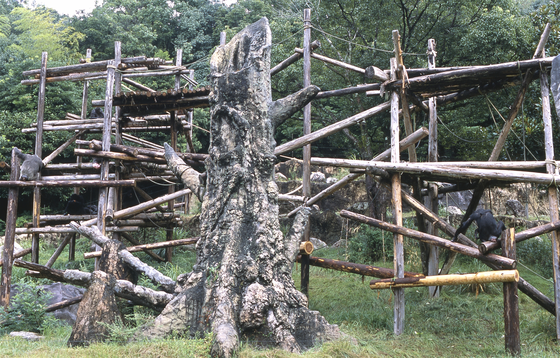 Noichi Zoological Park of Kochi Prefecture. Japan.